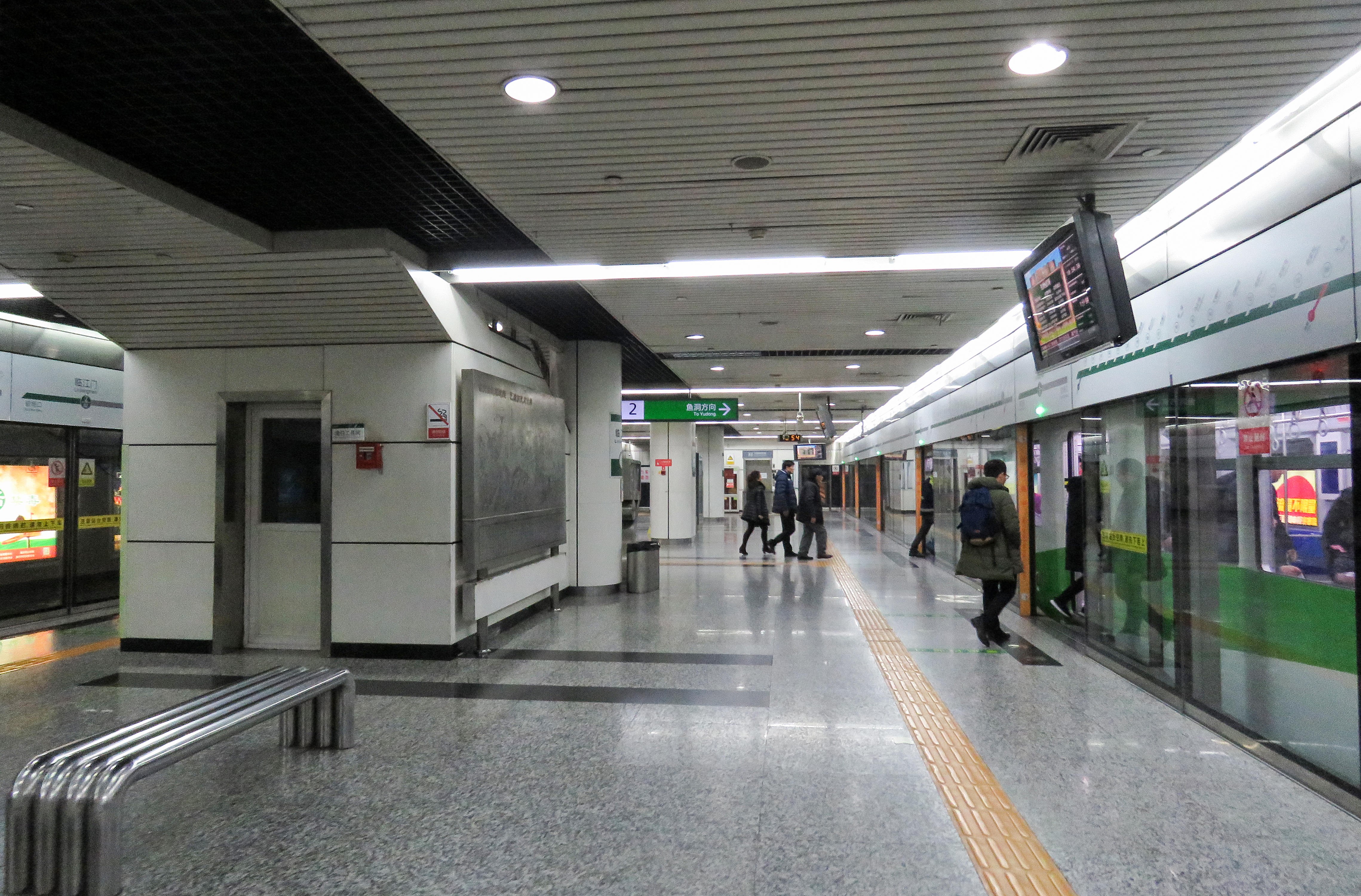 The train just arrived, so there's no enough time for a thorough view.